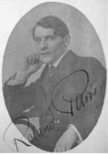 Roland Paris